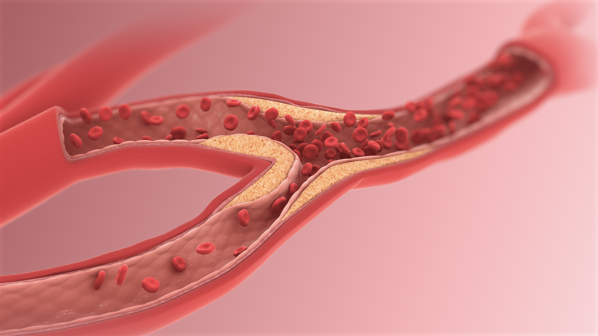 Constricted blood flow.